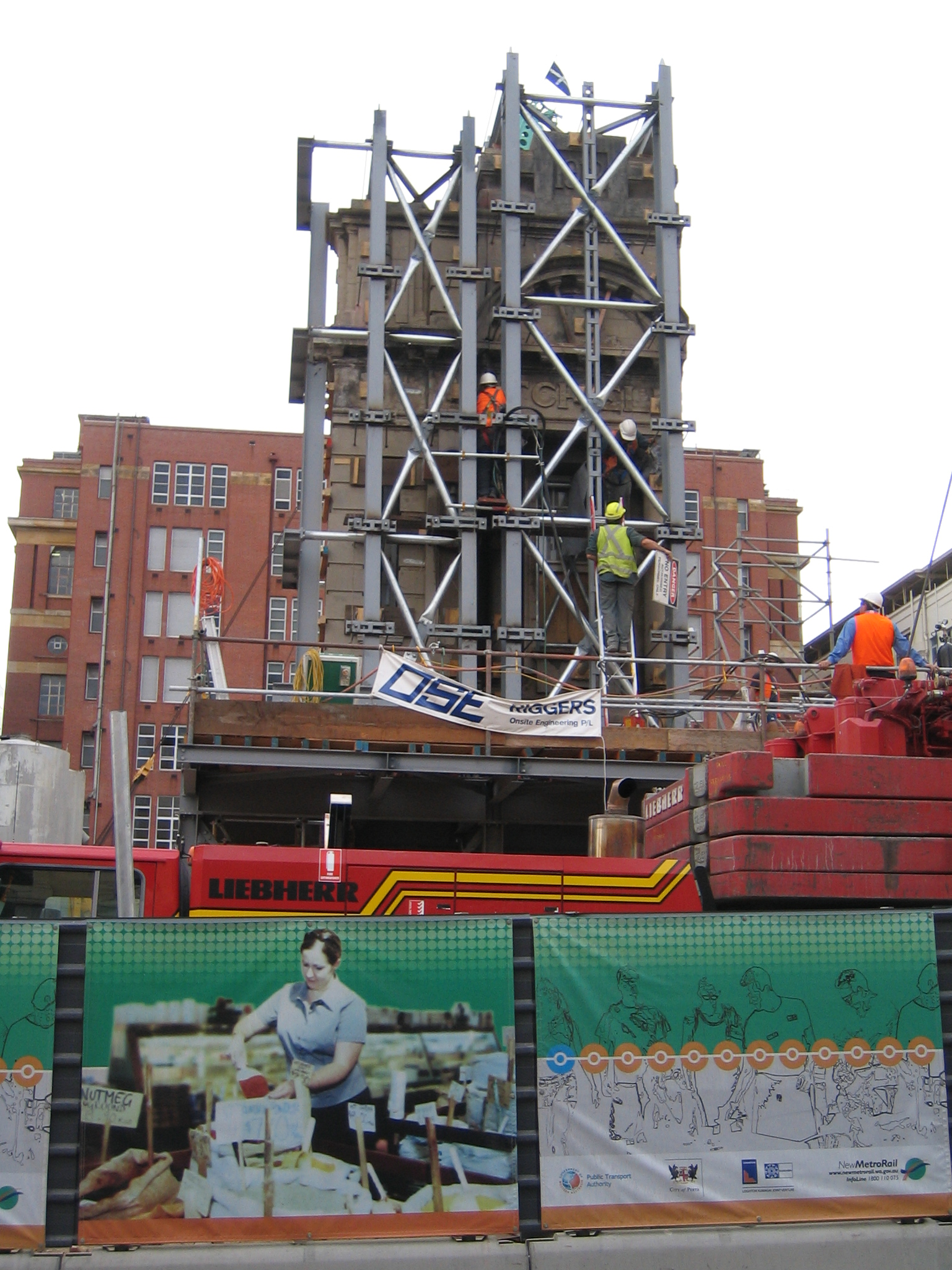 Portion of the Mitchell's Buildings façade being removed for storage until completion of new railway platform complex, William Street, Perth, Western Australia.